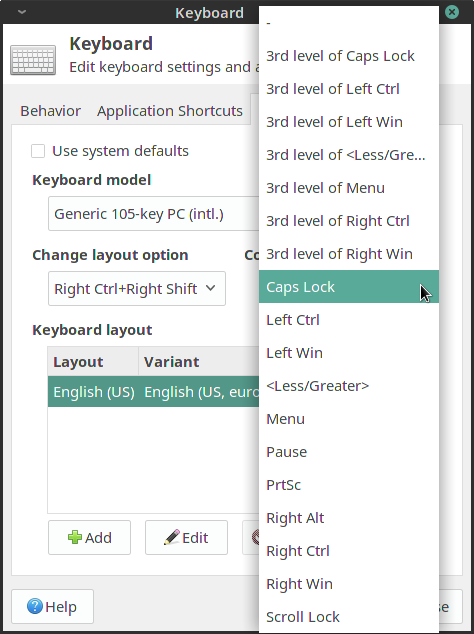 XFCE 4.12 inferface for the compose key selection in the keyboard configuration window